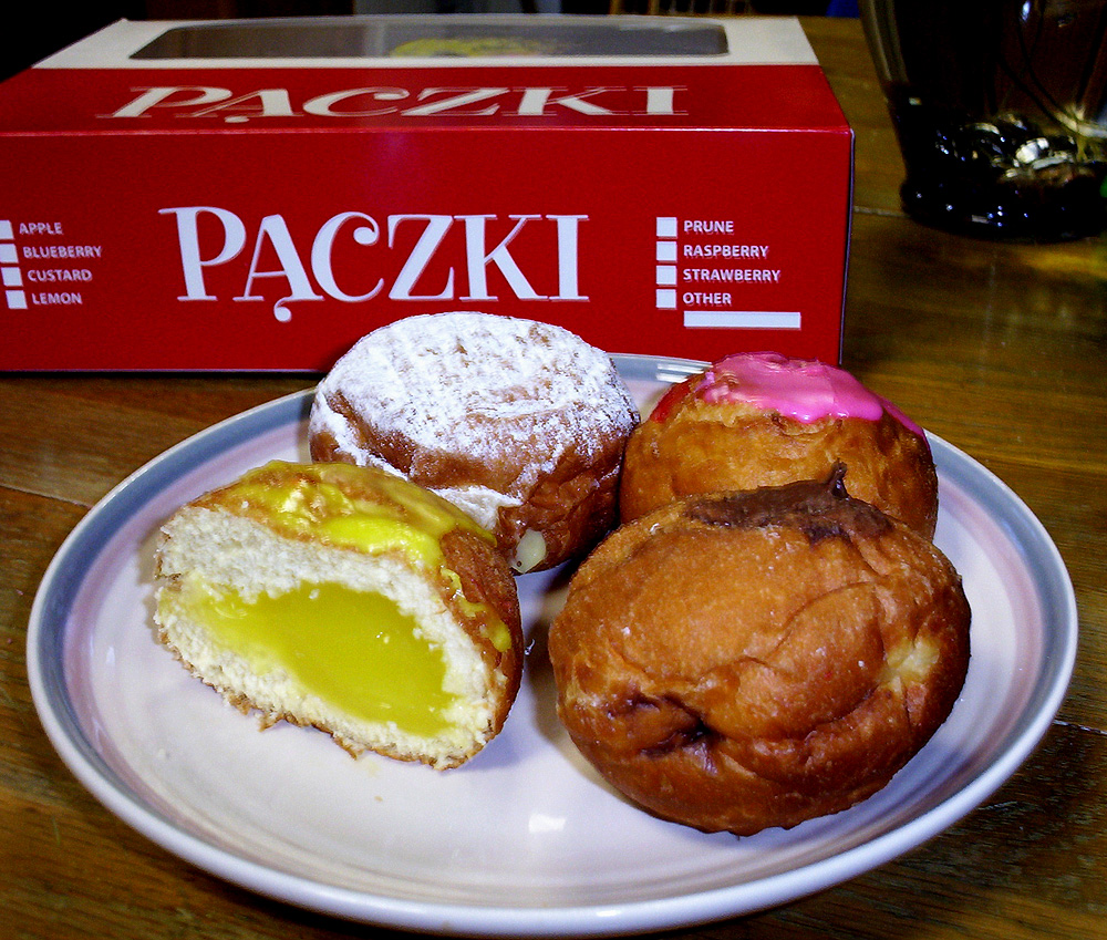 Assorted pączki made in Metro Detroit, USA for Fat Tuesday.